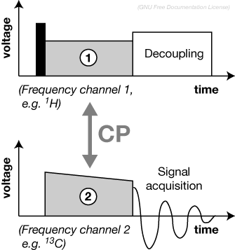 Cross-polarization radiofrequency pulse scheme for nuclear magnetic resonance spectroscopy.